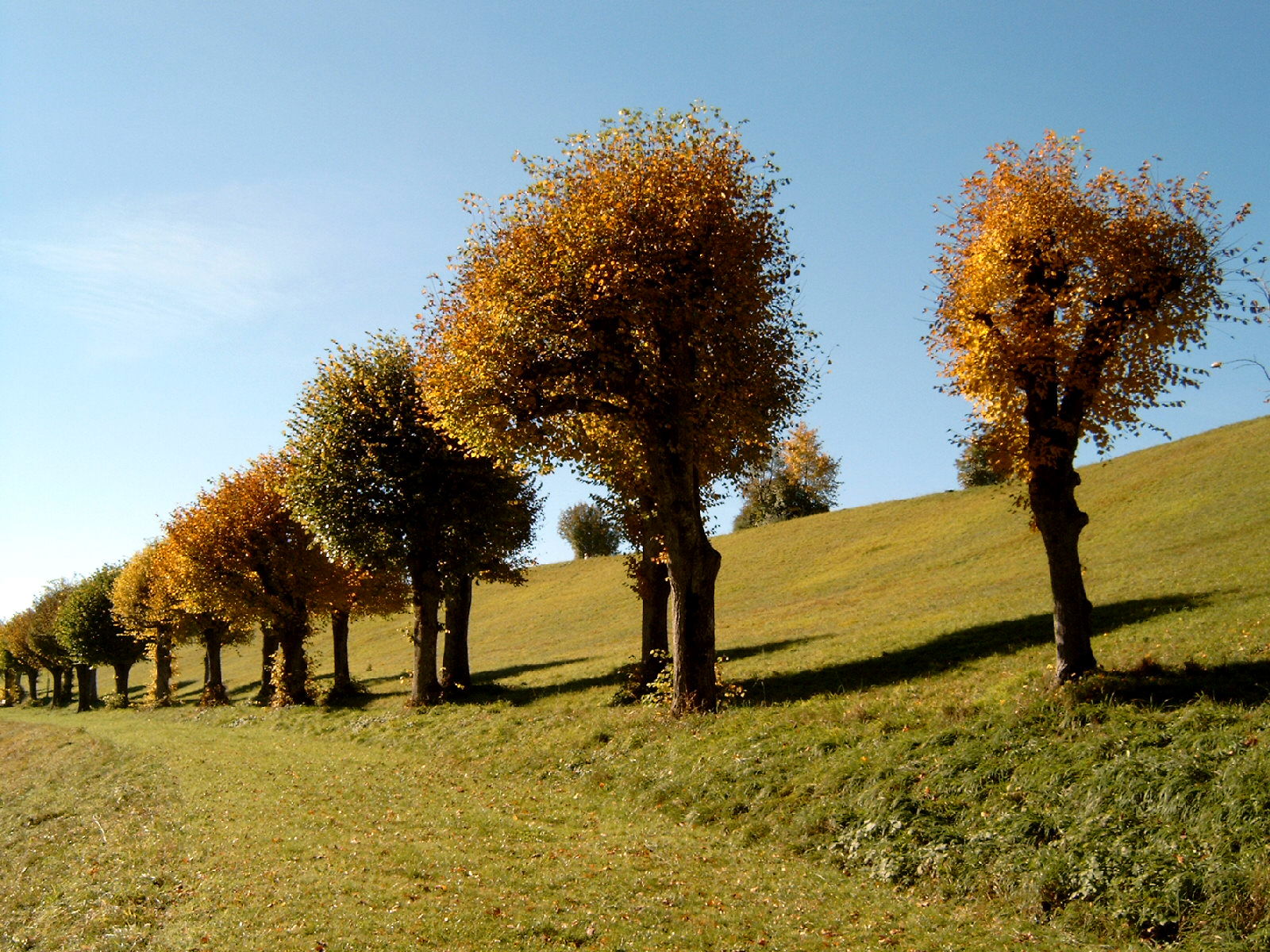 Johannishügel Tutzing Allee